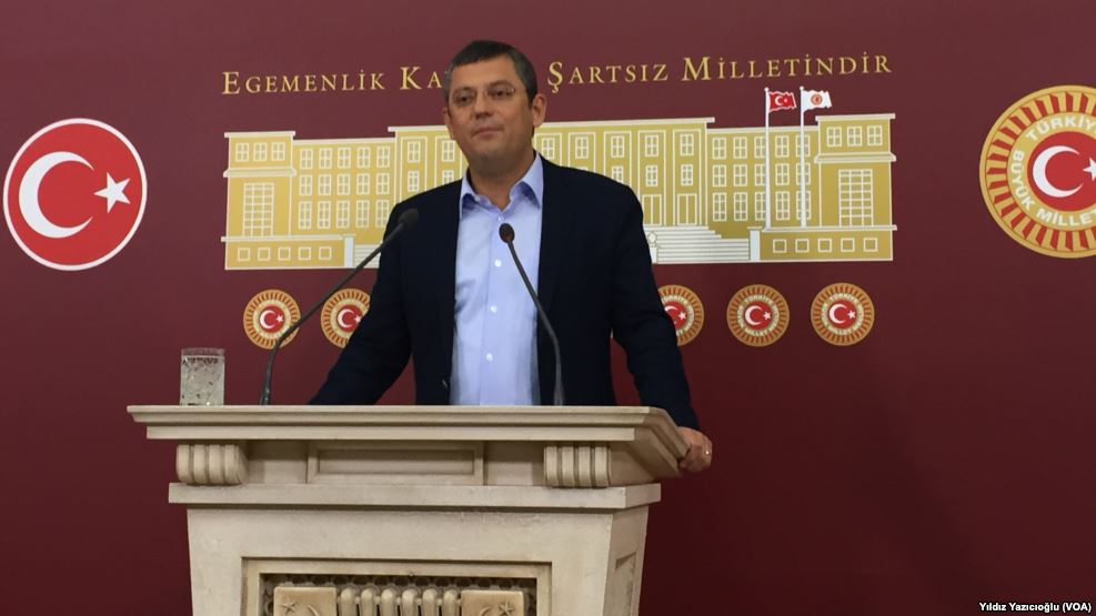 CHP MP Özgür Özel giving a press conference in Parliament